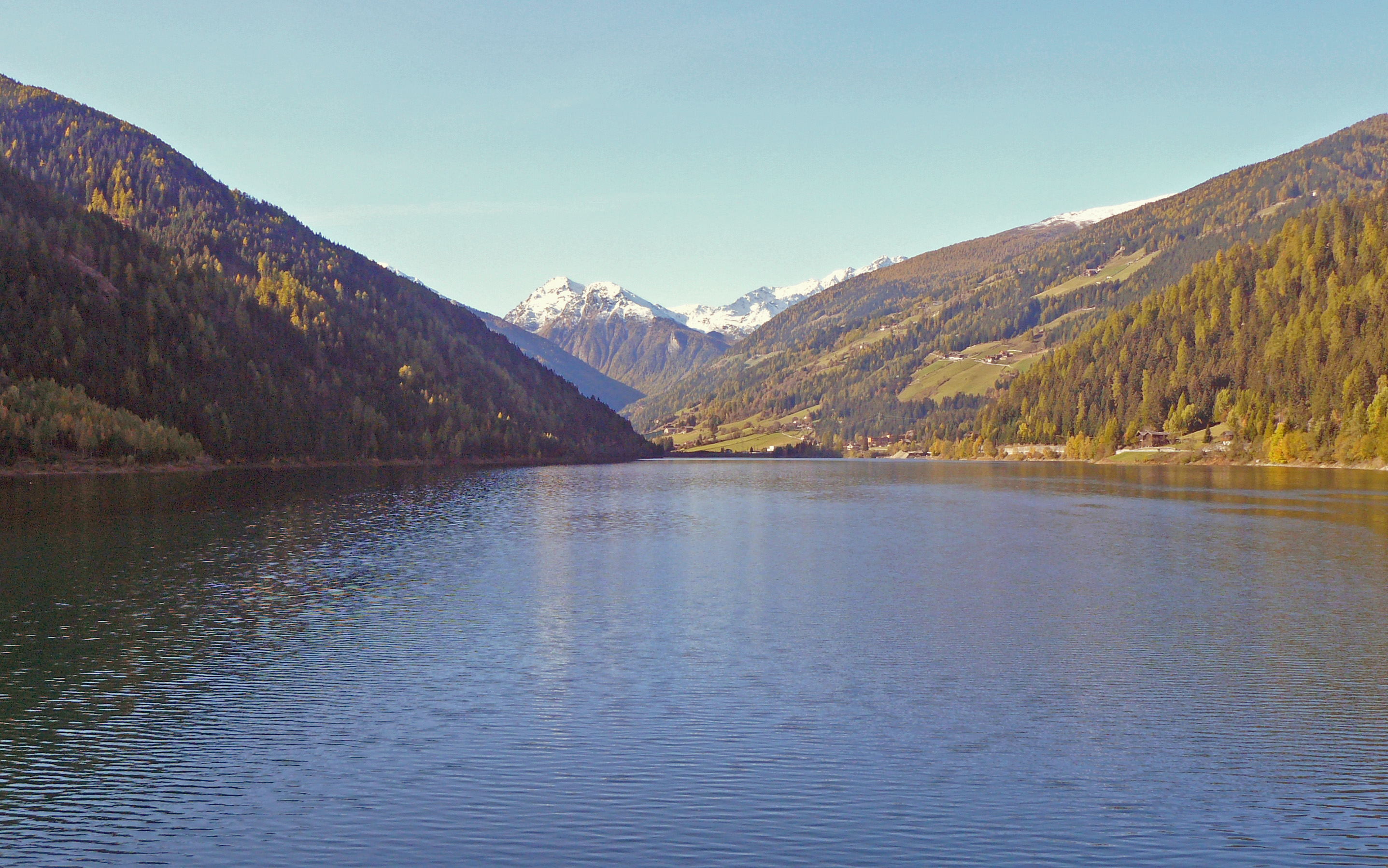 Zoggler Lake in the Ulten Valley (South Tyrol)